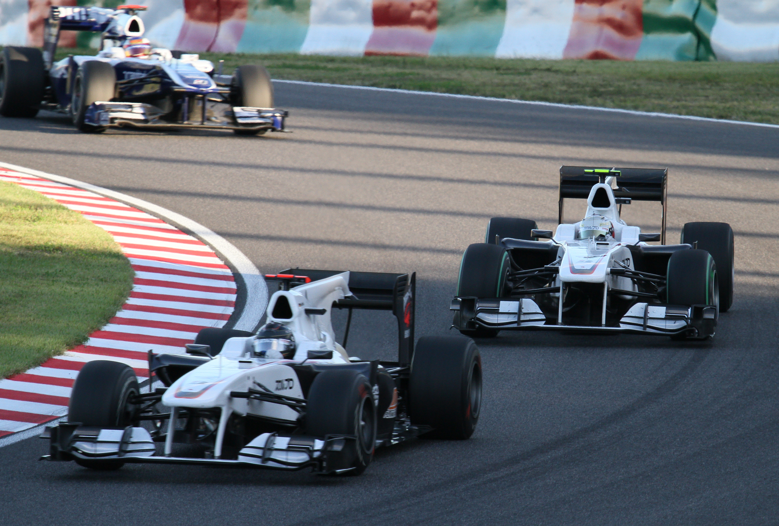 Formula One 2010 Rd.16 Japanese GP: Kamui Kobayashi (BMW Sauber) pursuing his teammate Nick Heidfeld.